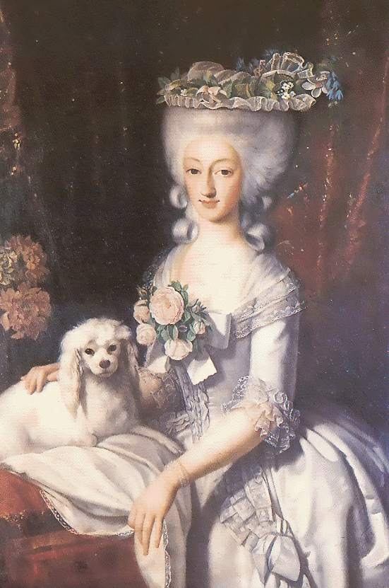 Portrait of Princess Maria Anna of Savoy (1757-1824)